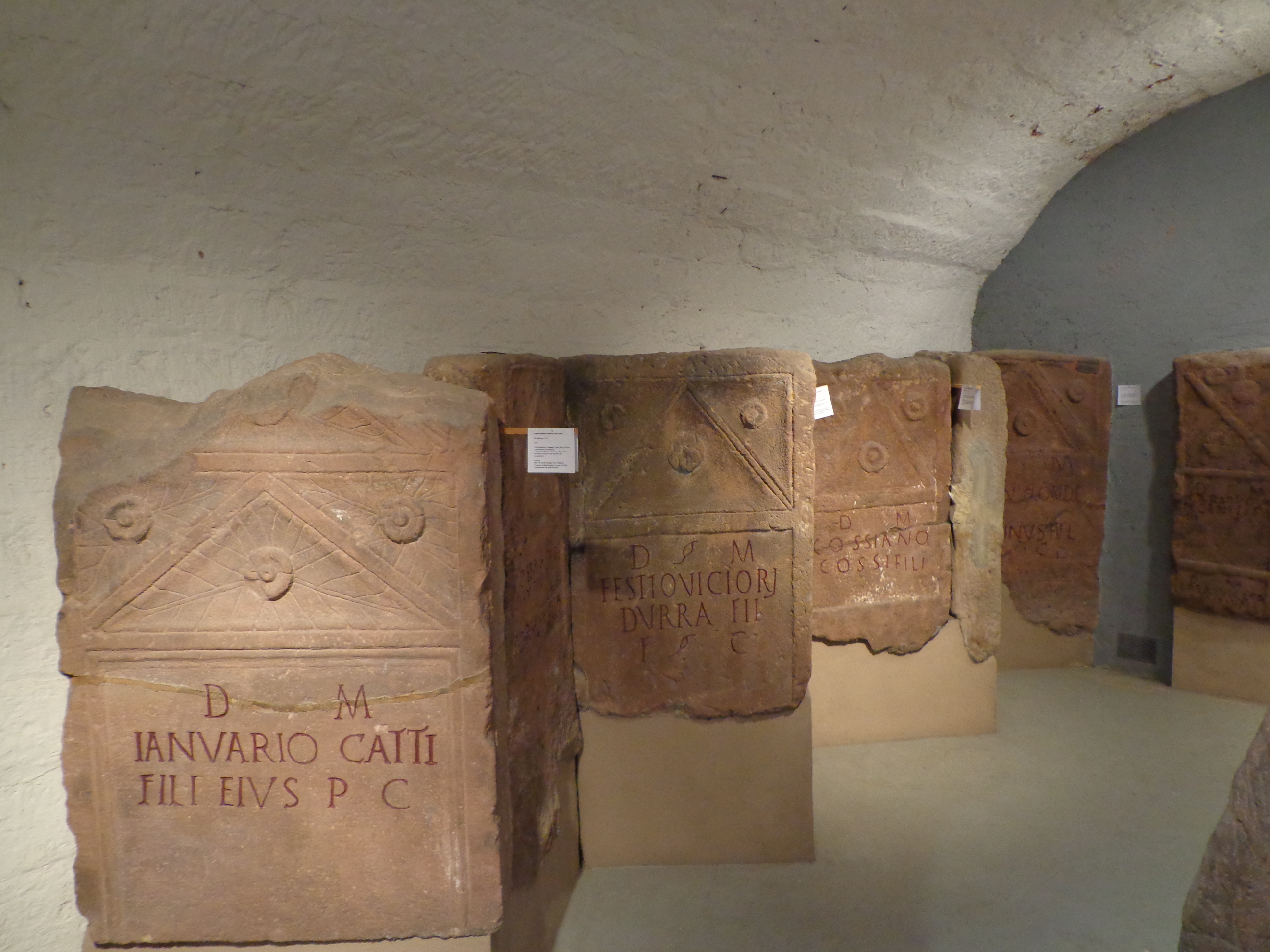 Collections of the museum of Saverne, Alsace, France